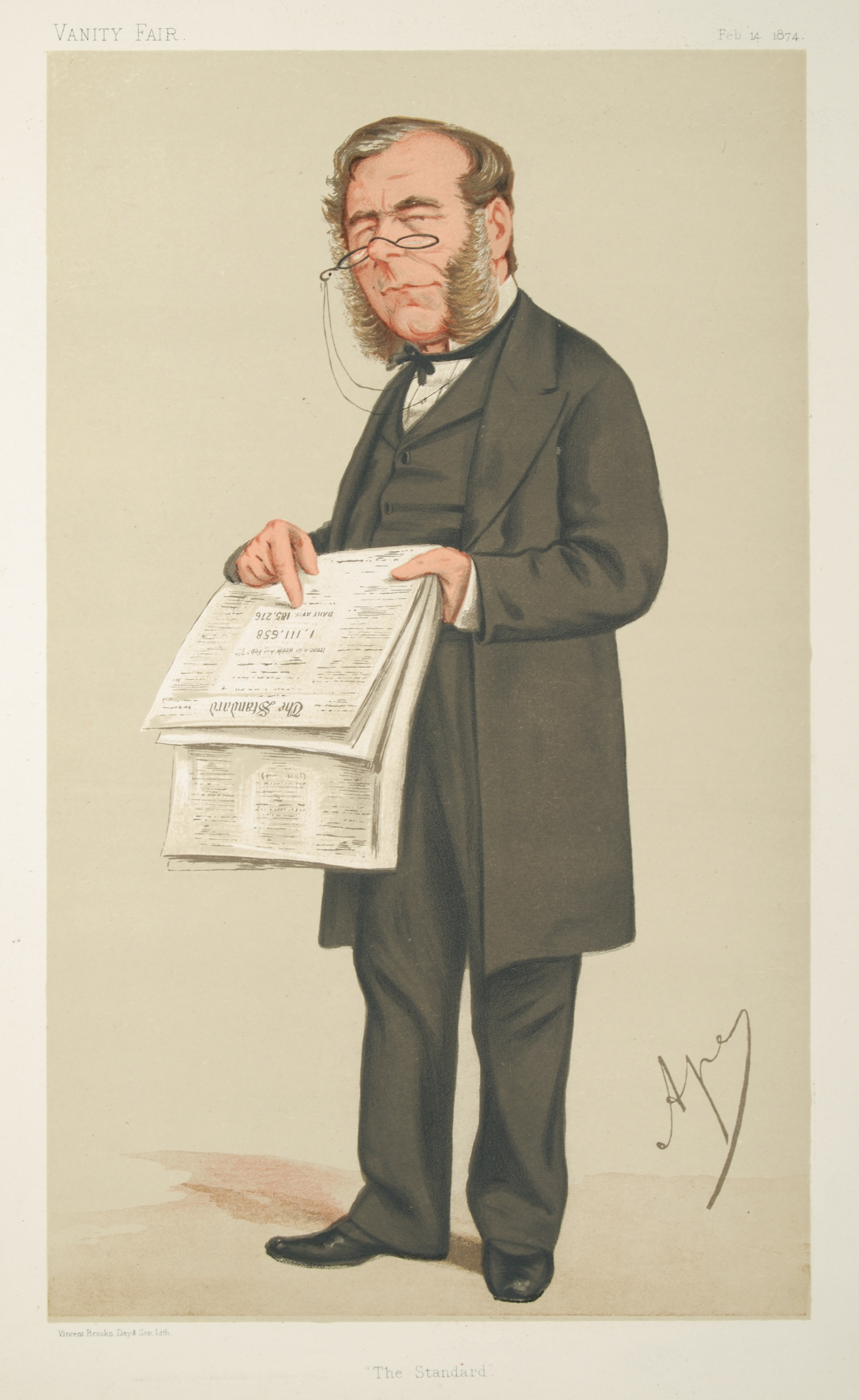 Men of the Day No.80: Caricature of Mr. James Johnstone. Caption read "The Standard".